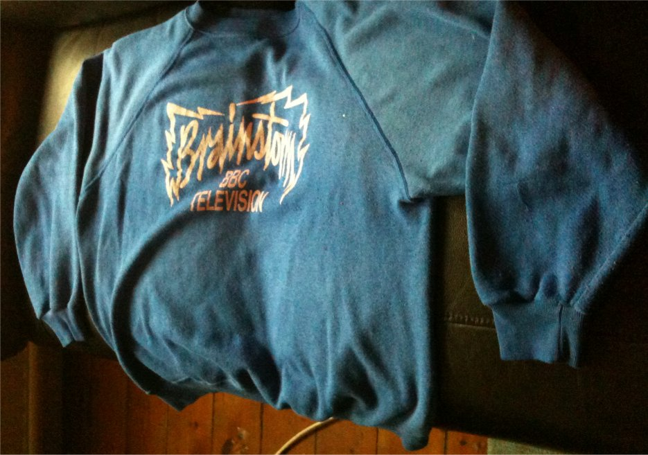 Sweatshirt from the BBC 1988 Gameshow "Brainstorm"